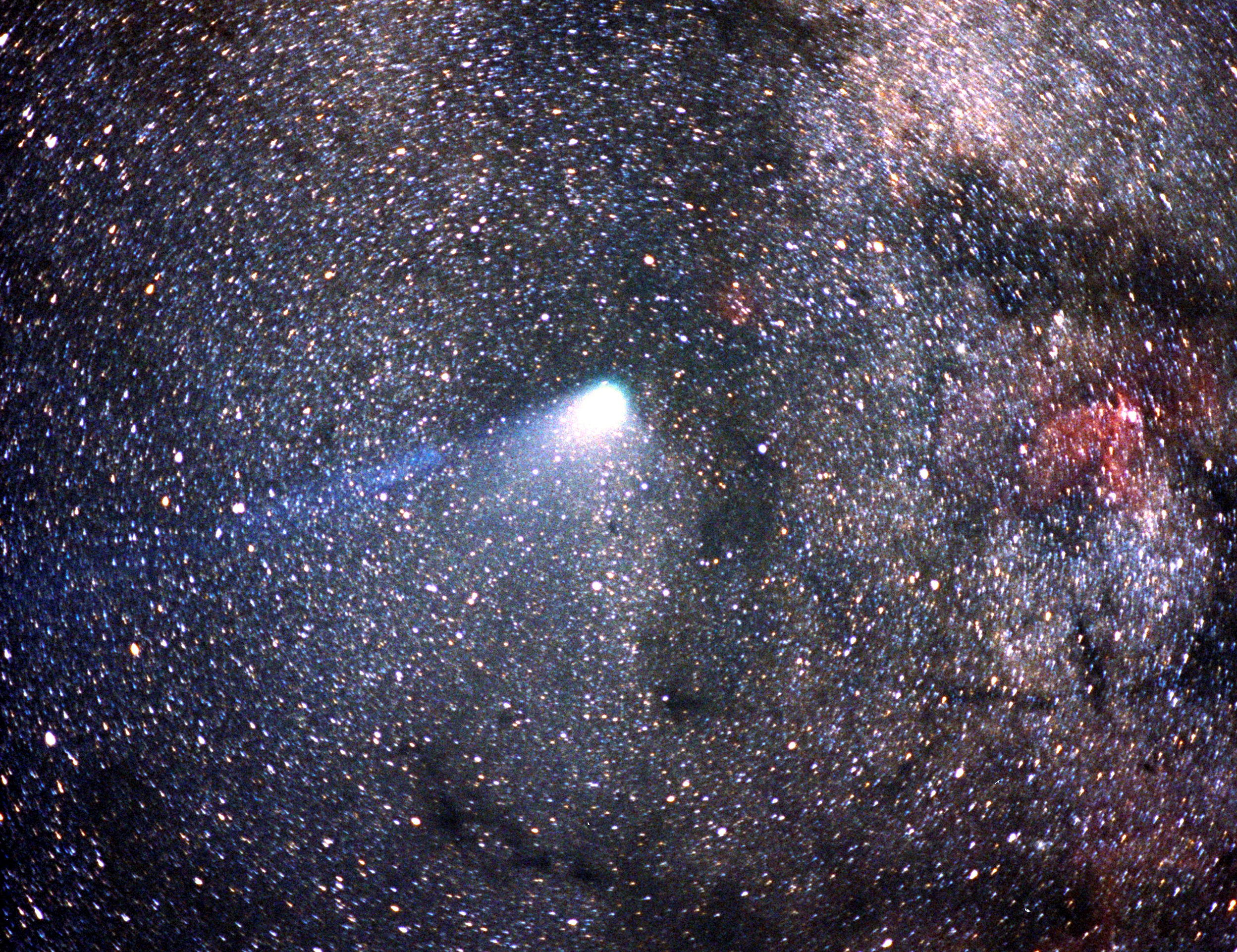 Photo No. AC86-0720-2 – Taken from Kuiper Airborne Observatory, C141 aircraft April 8/9, 1986, New Zealand Expedition, Halley's Comet crossing Milky Way. Disconnection of ion tail. Photo taken with equipment designed, mounted on the headring and operated by the Charleston (South Carolina) County School District CAN DO Project.